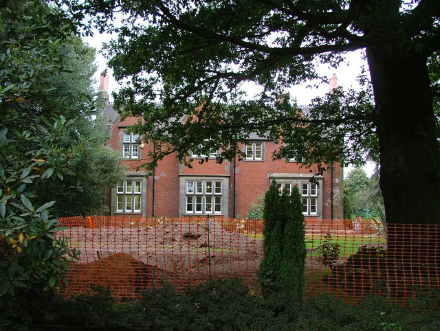 Norton Grange Norton Grange is a former rectory and now the offices of Twycross Zoo. It is currently being renovated. Unfortunately, trees prevent a better photo of this garden front of the house.